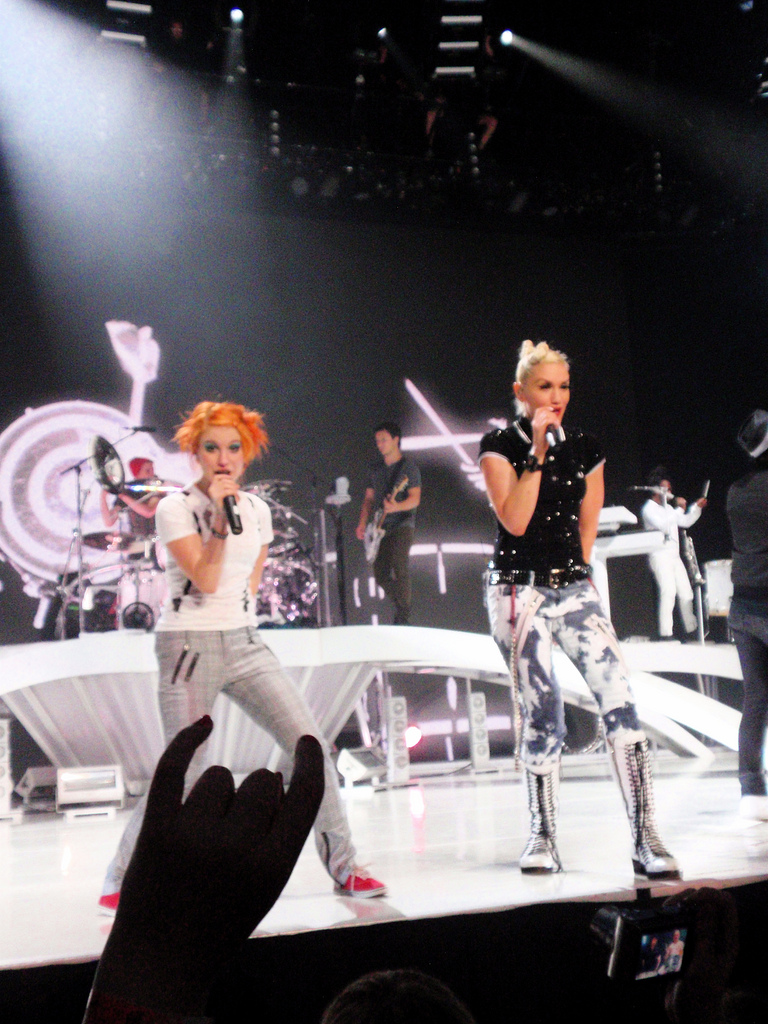 Paramore and No Doubt performing during the Summer Tour 2009 in General Motors Place in Vancouver.